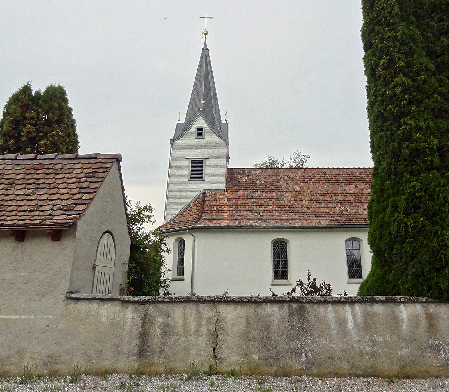 Church of Wäldi, Switzerland, seen from the south.